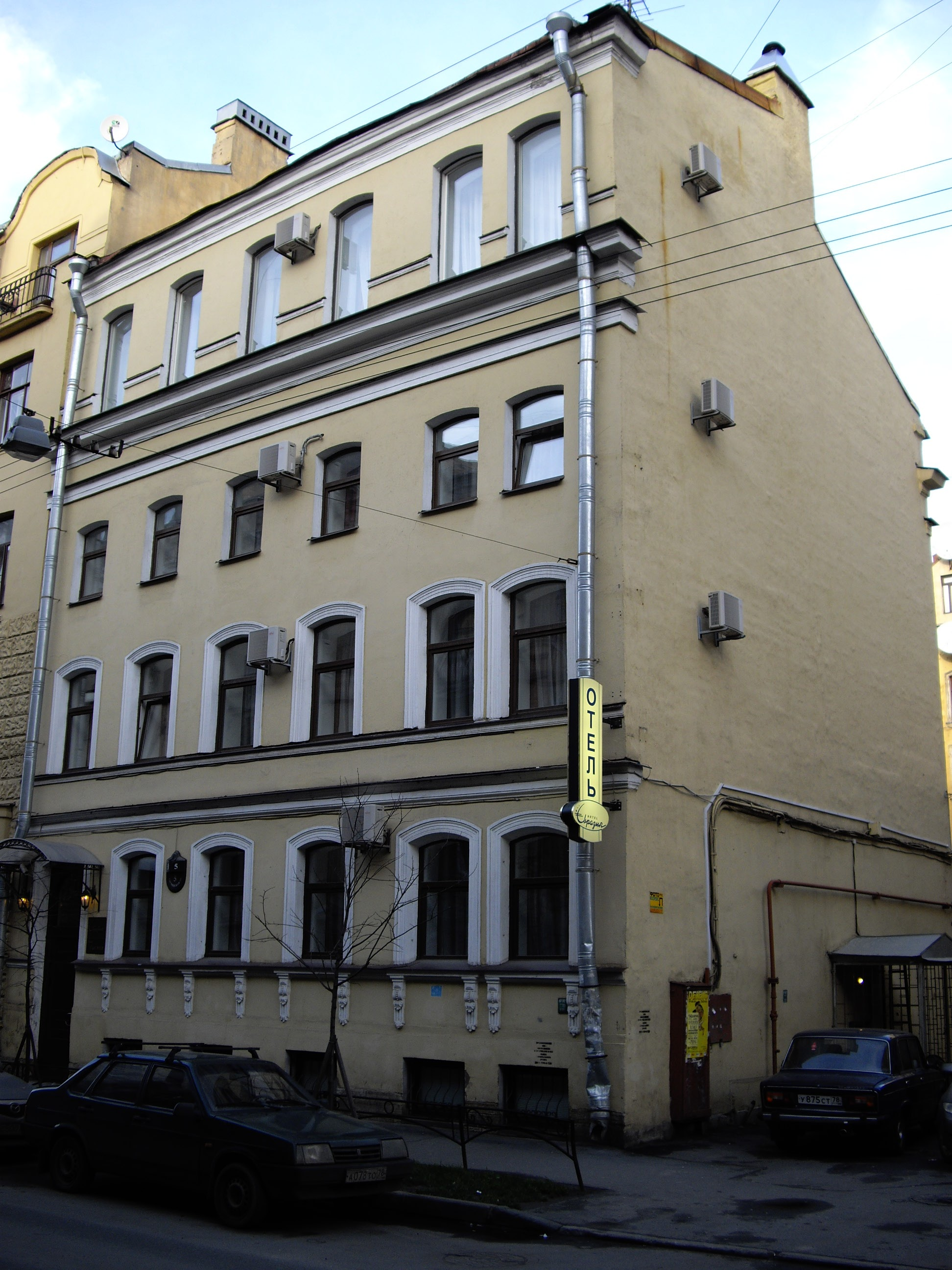 Gatchinsraya st., 5 (Saint-Petersburg, Russia). 1871; 1888 (architect Ch. Tatzki, reconstruction, adding the 4th floor); reconstructed twice in 20th century.